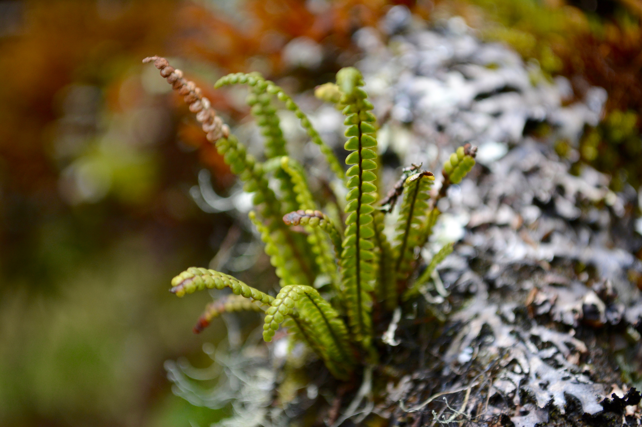 Melpomene moniliformis. Species of plant.